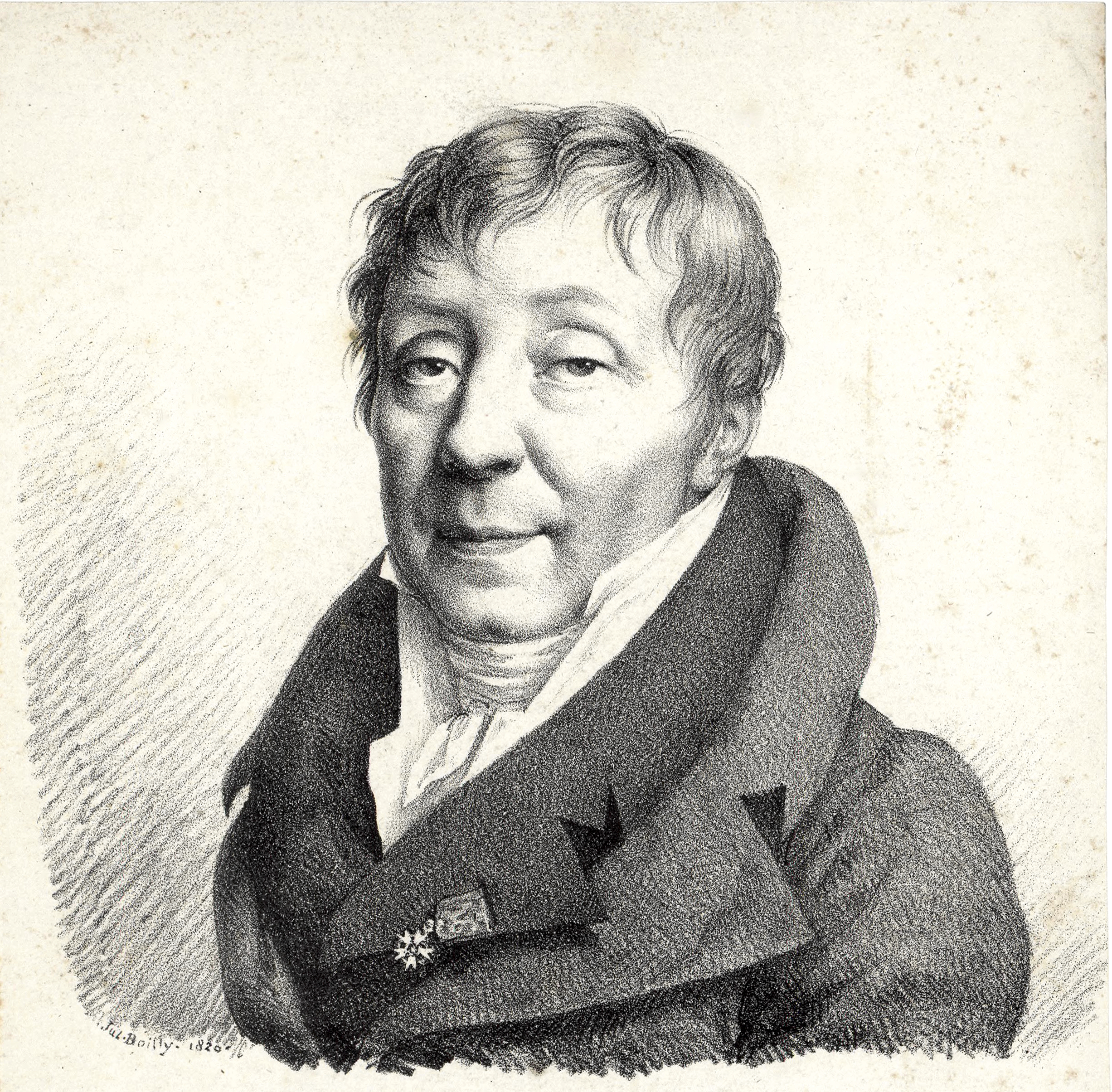 François Andrieux French poet and playwright (1759–1833)